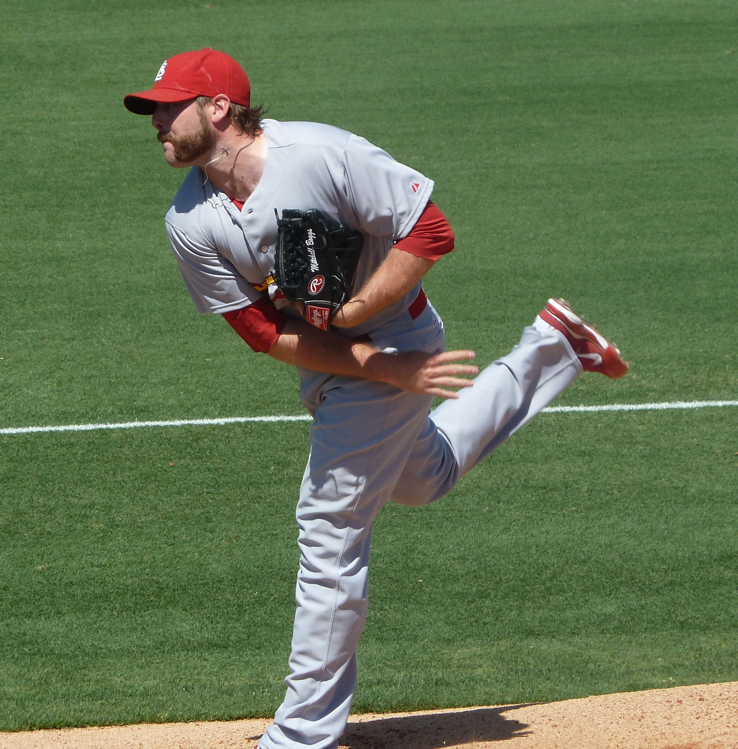 Mitchell Boggs, Roger Dean Stadium, Jupiter, Florida, March 23, 2012.